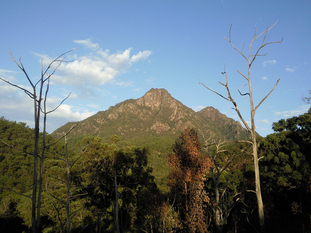 Mount Barney We walked up Logan's Ridge and down South East Ridge. Logan's is the ridge just inside of the right-most peak and it is the quickest, shortest ascent. South East is the long ridge on the left.